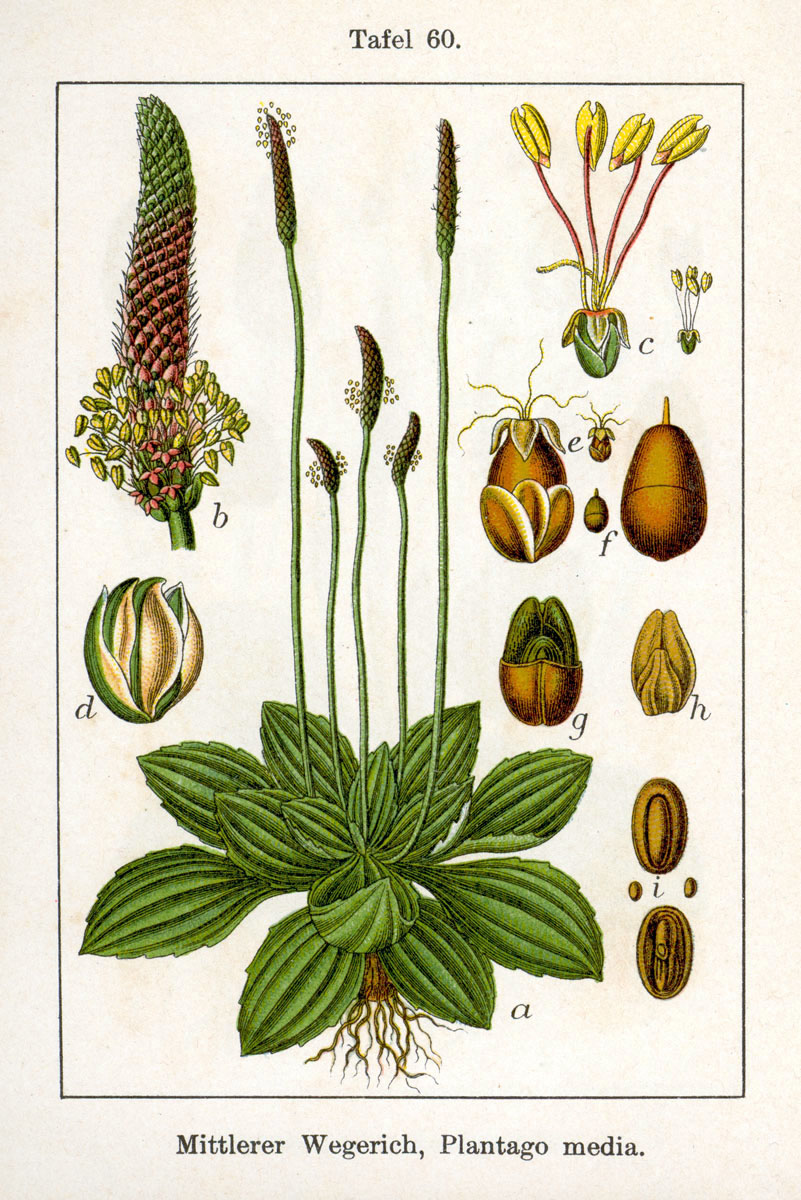 Plantago media L. Original Description Mittlerer Wegerich, Plantago media